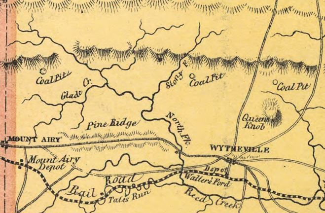 This is the Mt Airy - Wytheville, VA portion of a railroad map from the 1850s. Wytheville and the Virginia & Tennessee Railroad were important to the Confederacy during the American Civil War.